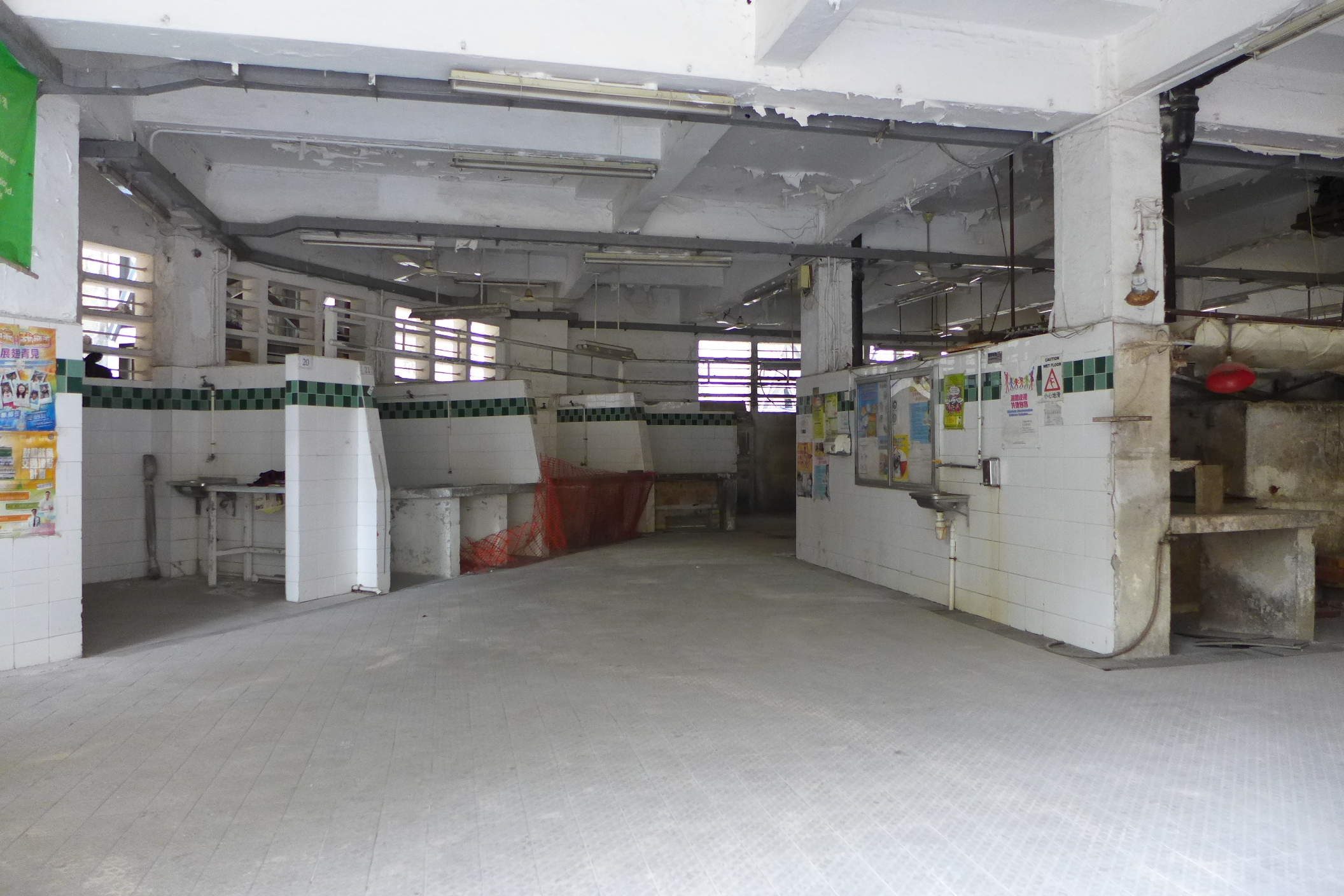 Bridges Street Market Interior